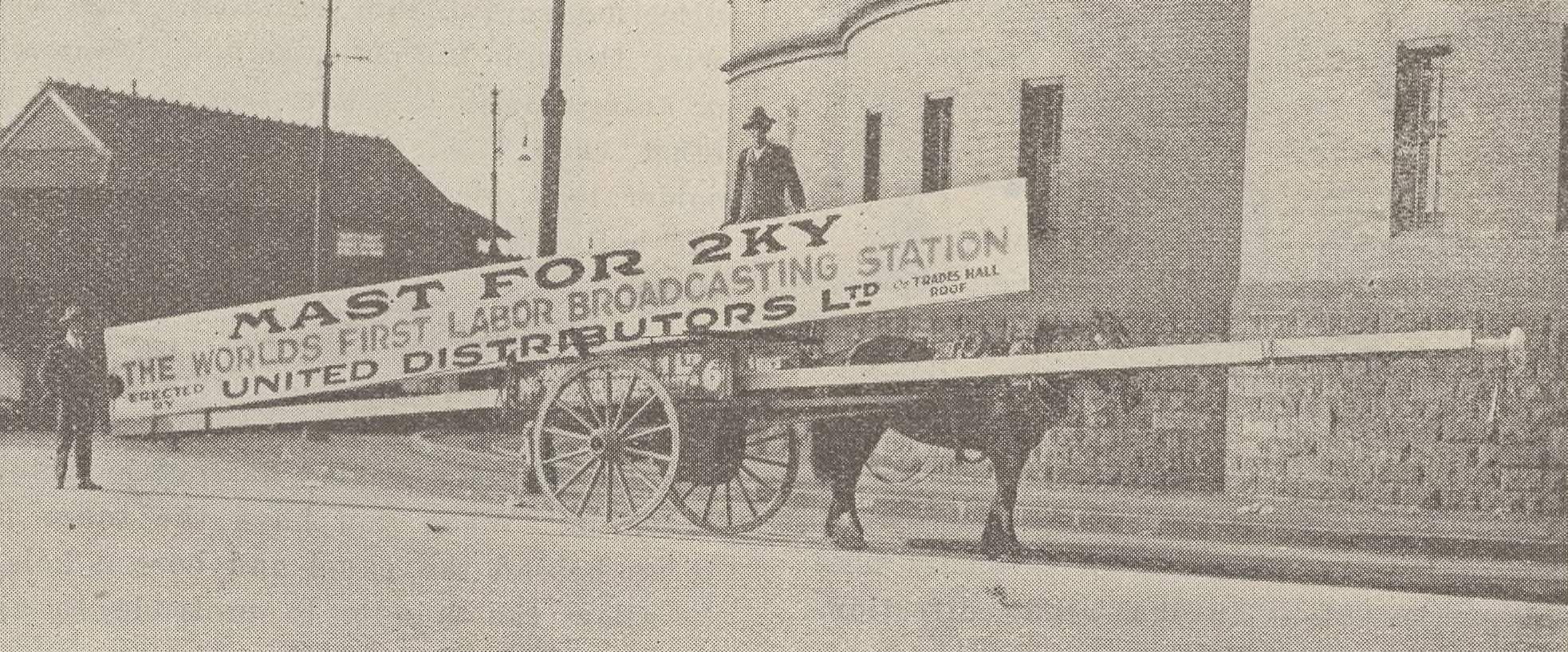 2KY mast being conveyed to the new station